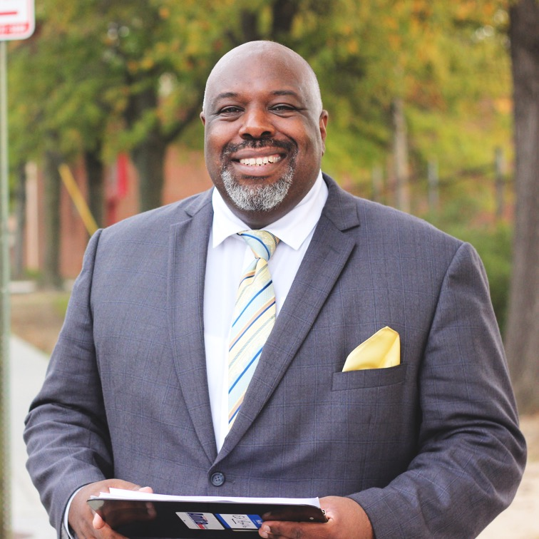 This a photo of Ed Potillo taken at Houston Elementary School in Washington DC.